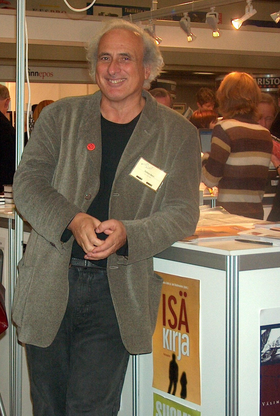 Stefano Benni, Italian writer, at the Helsinki Book Fair in 2004